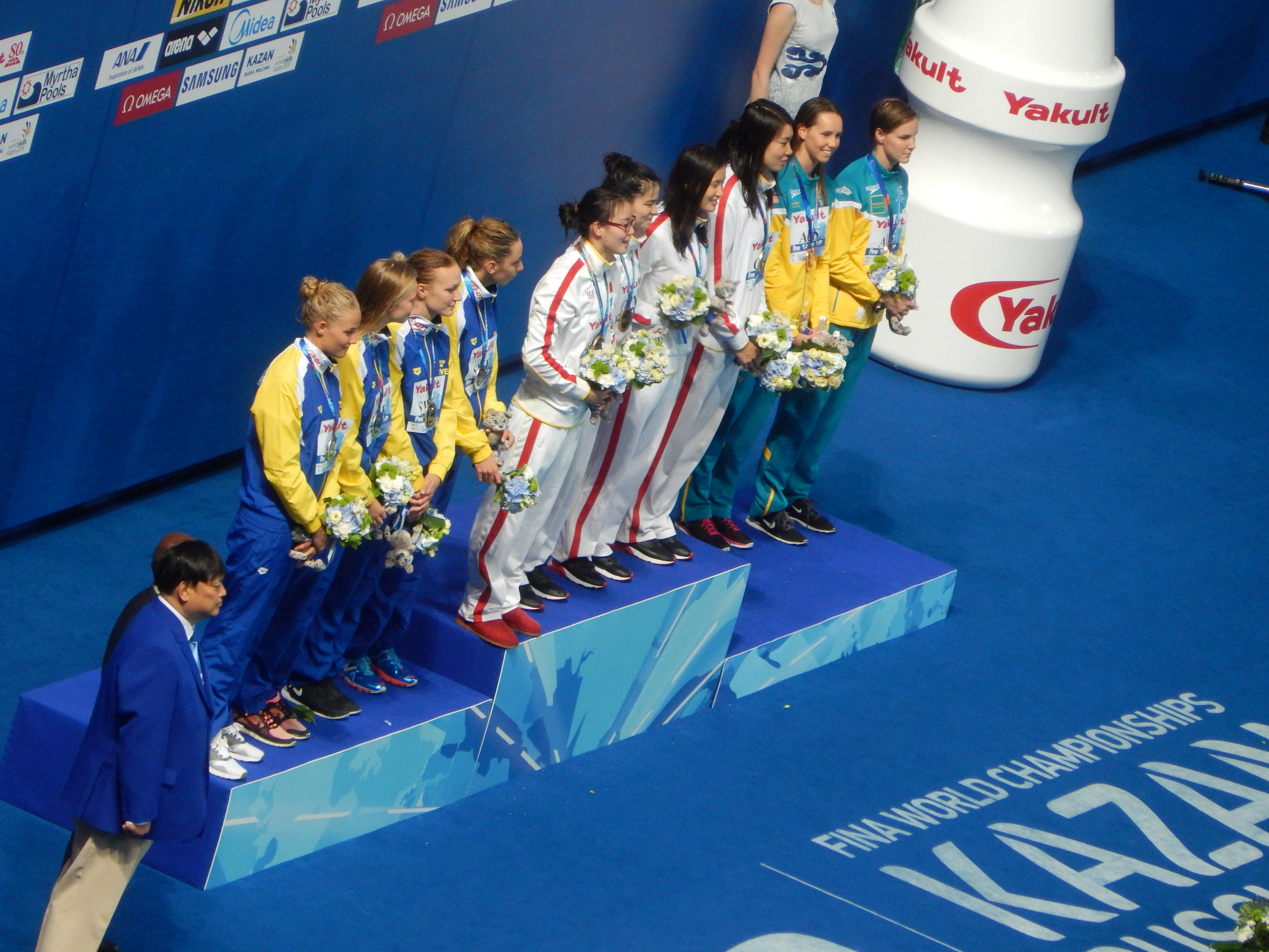 Medallists at the women's 4×100m medley relay in Kazan 2015